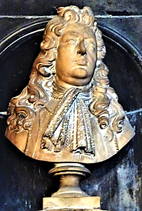 Bust of Admiral Sir John Berry (1635-1689), detail from his mural monument in Church of St Dunstan, Stepney, London